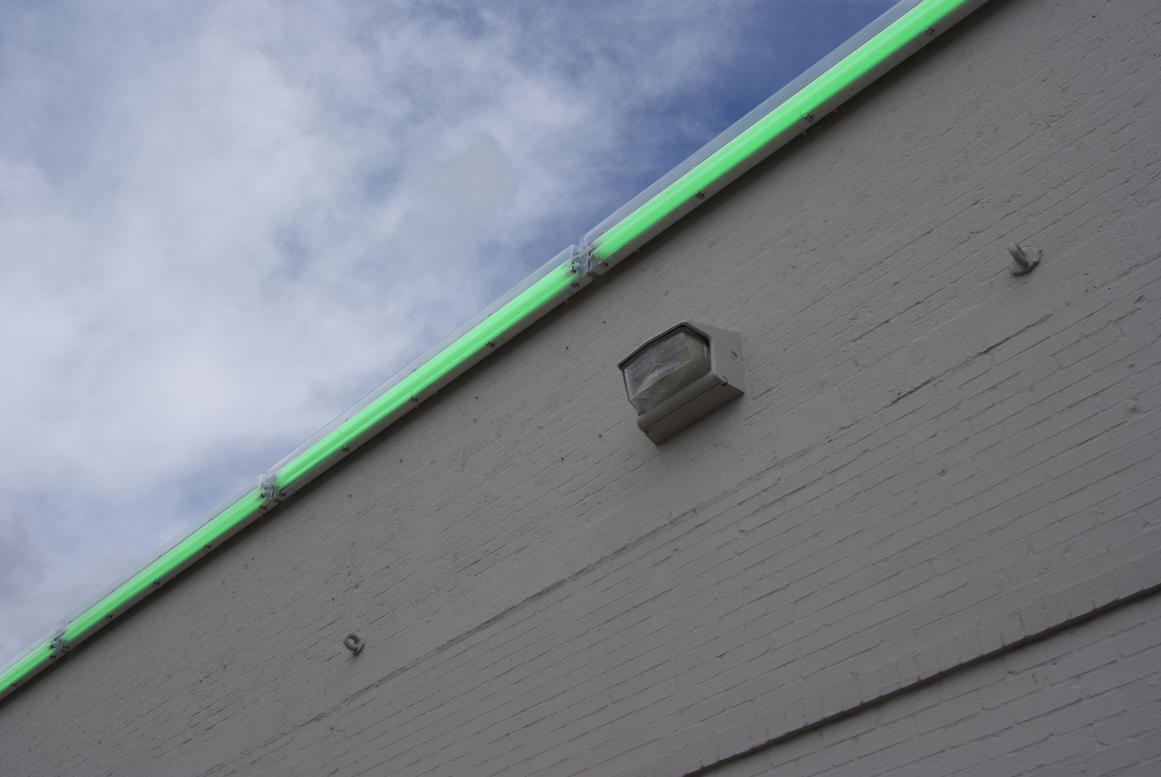 The work consists of two rows of green fluorescent light tubes, one installed on the east and the other on the west top edge of Richmond Hall of The Menil Collection at 1500 Richmond Avenue, Houston, Texas, USA. This photograph shows the tubes on the west side.